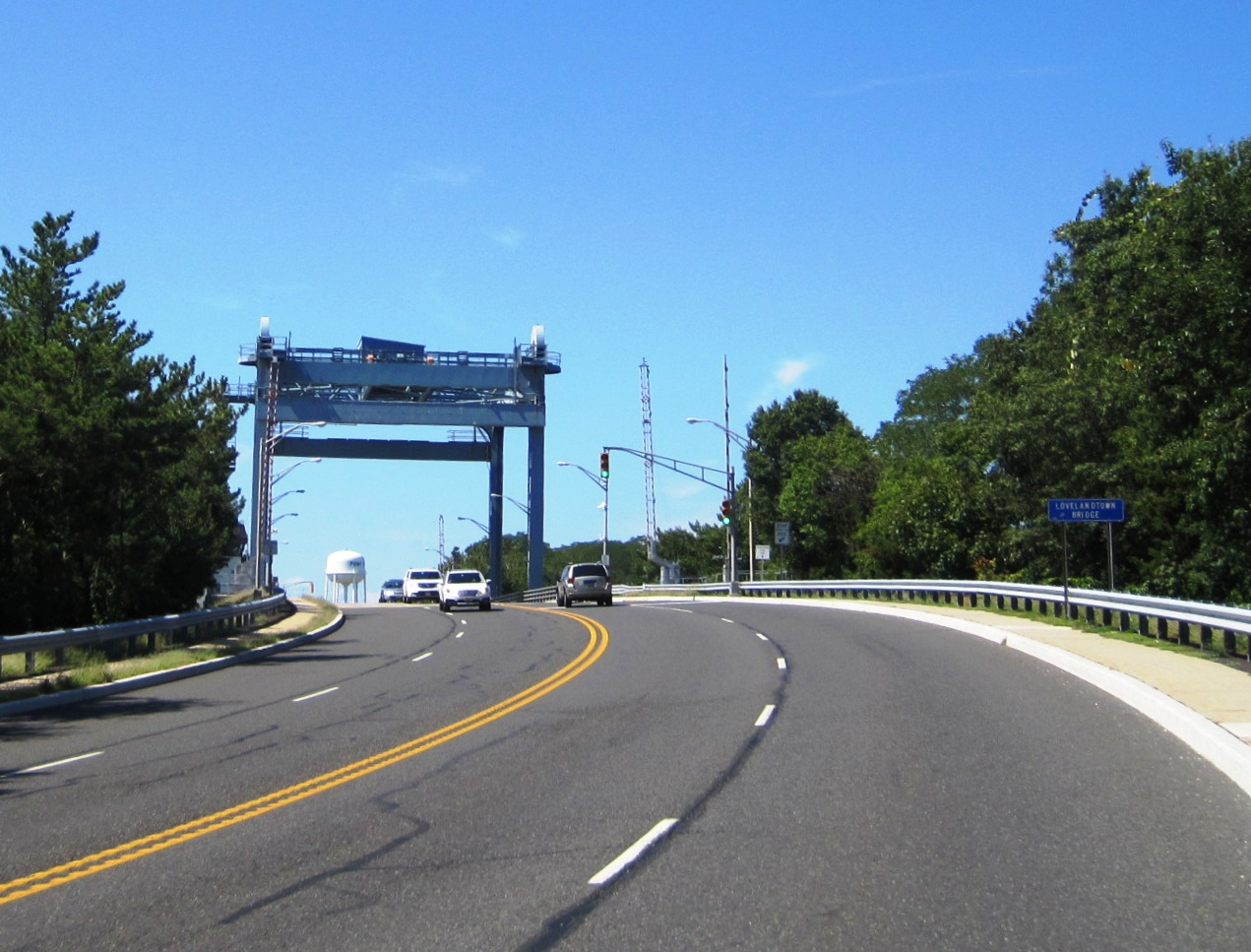 Photo showing the Lovelandtown Bridge along westbound Bridge Avenue (New Jersey Route 13) in Point Pleasant, New Jersey. The bridge crosses the Point Pleasant Canal, part of the Intracoastal Waterway.